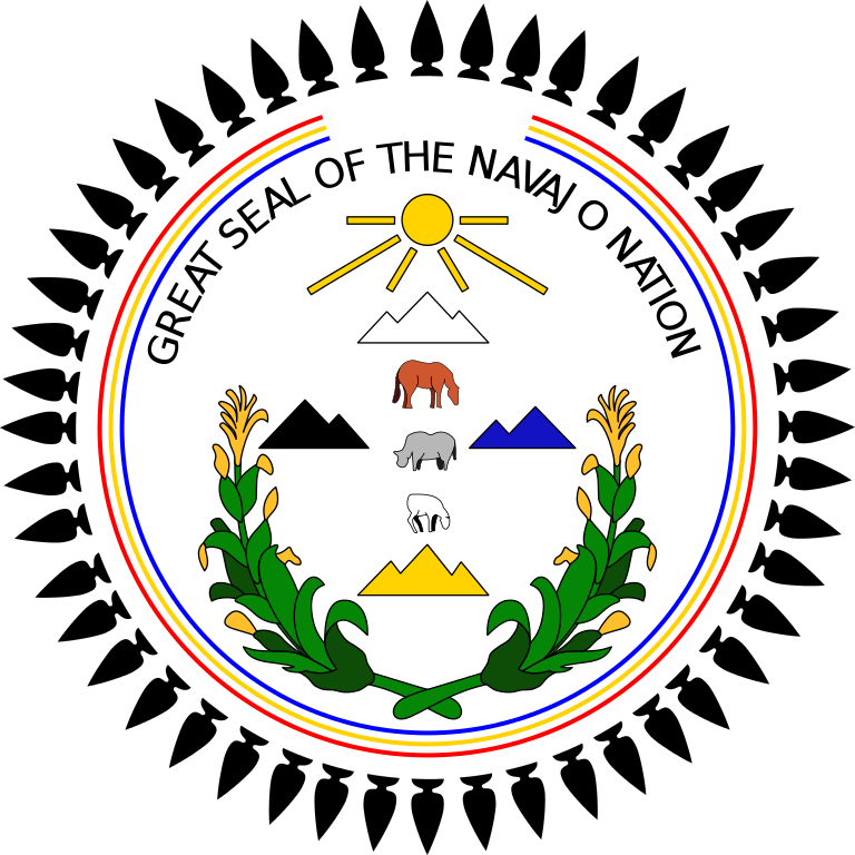 Great Seal of The Navajo Nation